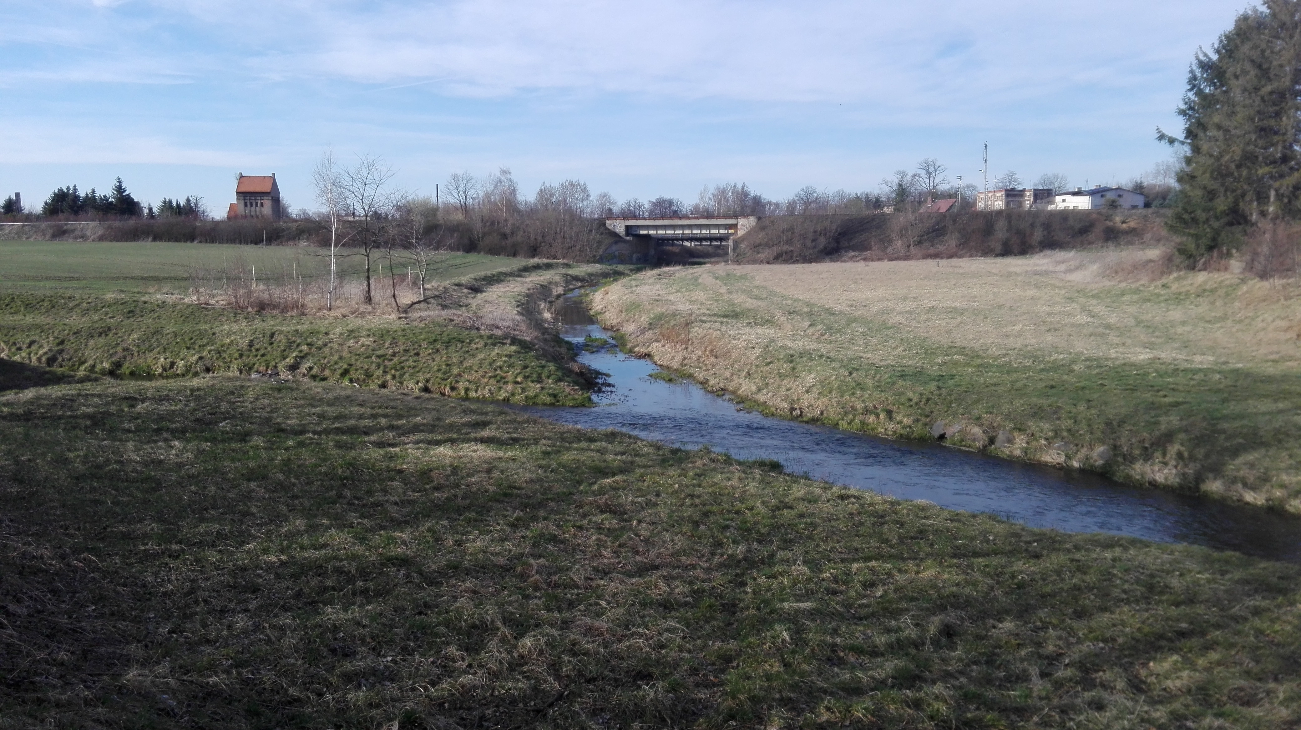 River Prudnik, Złoty Potok (river) in Prudnik